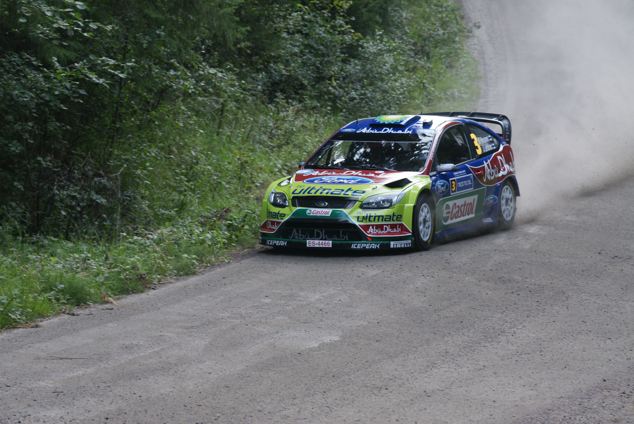 Mikko Hirvonen driving his Ford Focus RS WRC 09 at Rannakylä shakedown in Muurame.